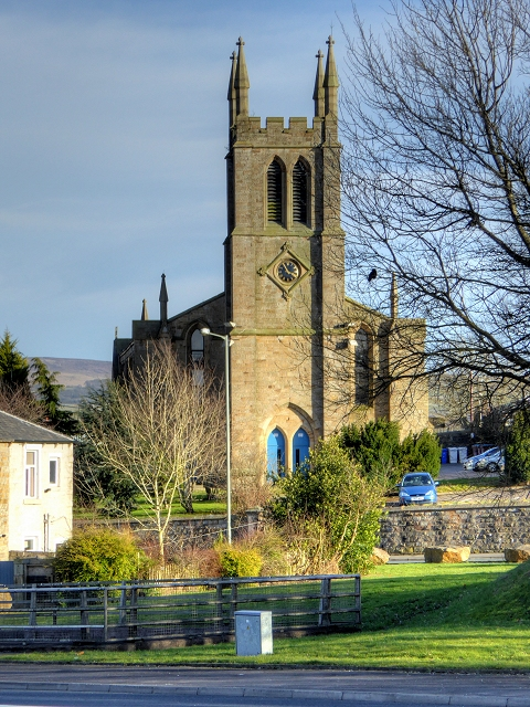 Church of the Holy Trinity (Trinity Towers)